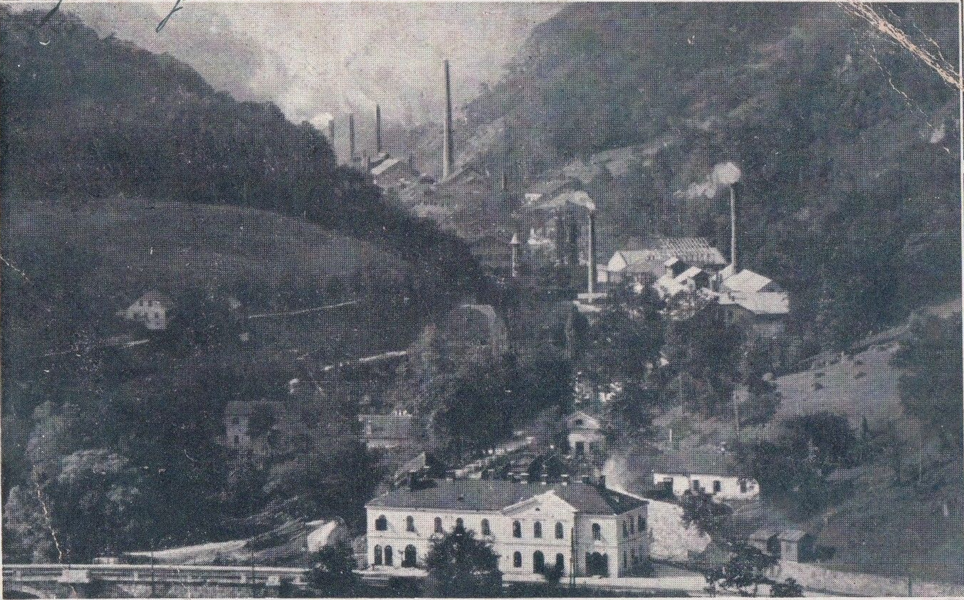 Postcard of Steklarna Hrastnik.